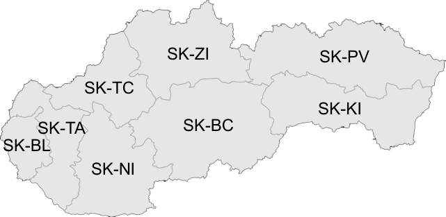 Regions (kraje) of Slovakia with respective ISO 3166-2:SK codes